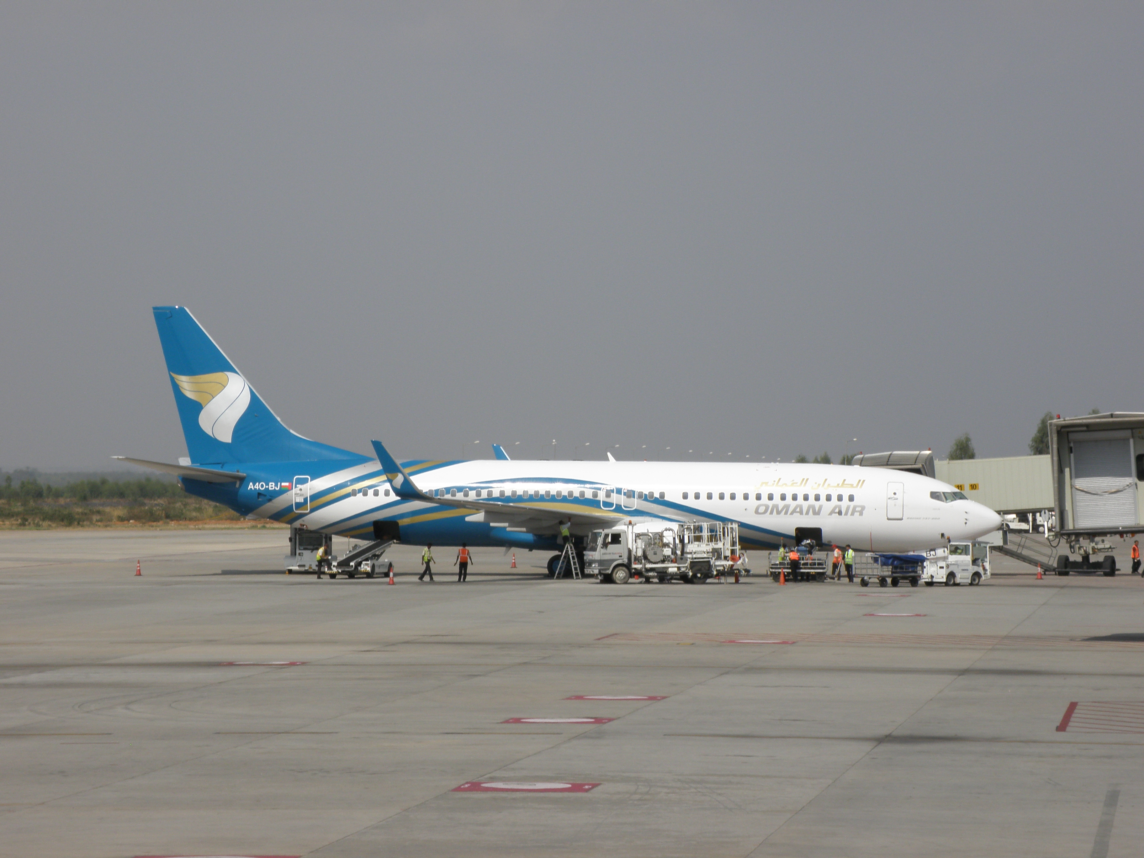 An Oman Air Boeing 737-800 at Bengaluru International Airport.